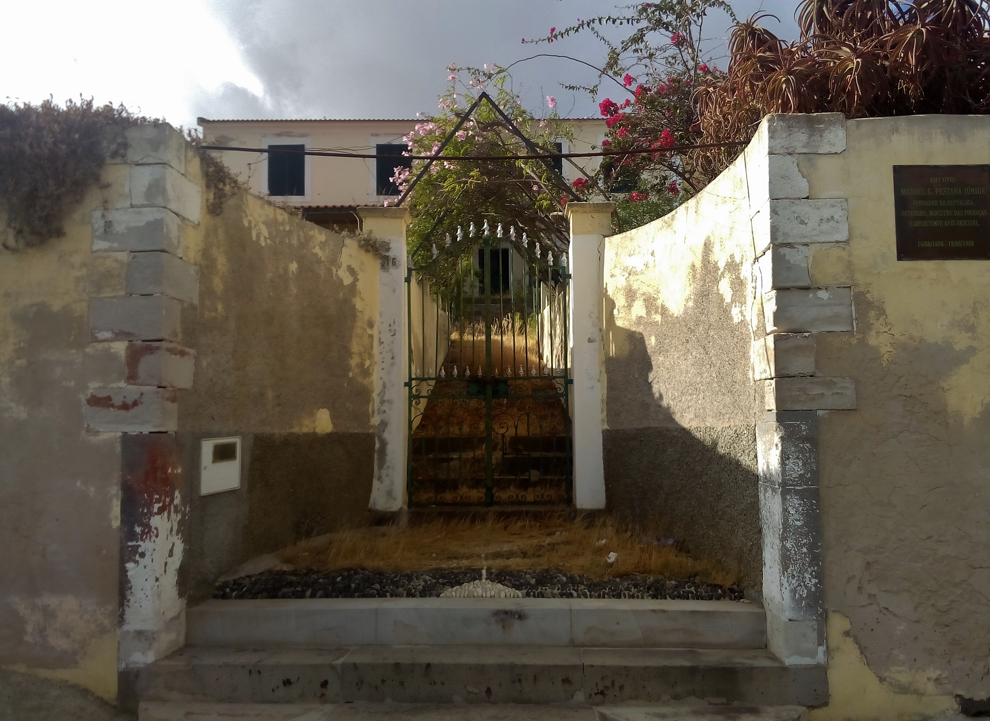 Home of Manuel Pestana Junior, Portuguese member of Parliament, Minister of Finance and, later, anti-fascist.